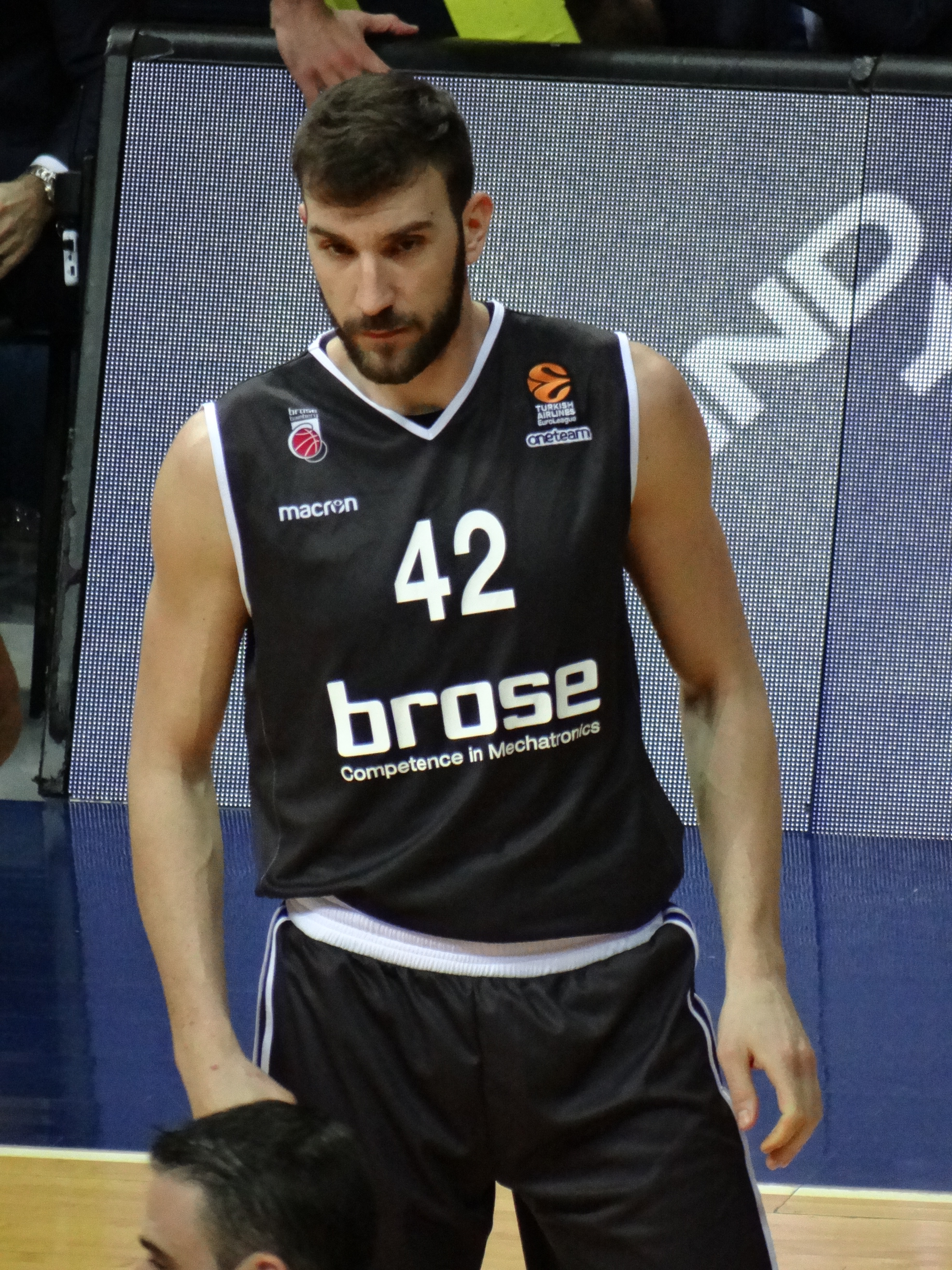 Dejan Musli 42 Brose Bamberg EuroLeague 20180209